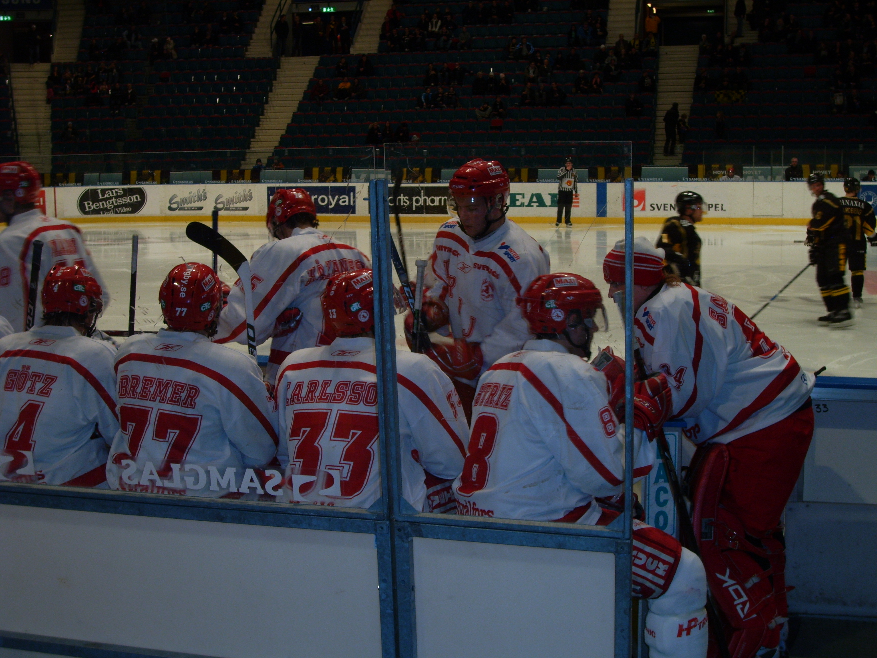 Ice hockey players from IF Troja/Ljungby.